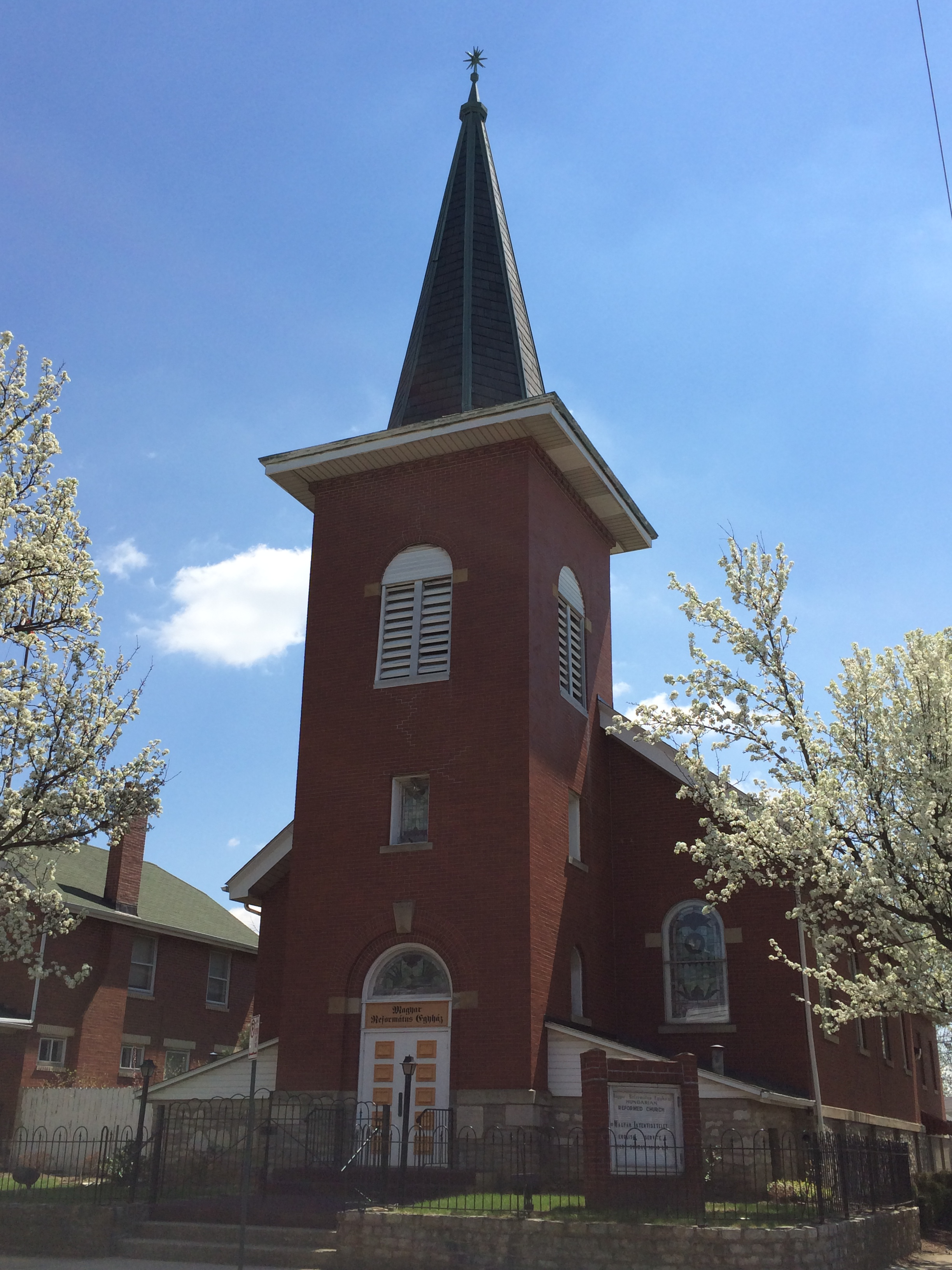 Hungarian Reform Church located in Columbus, Ohio